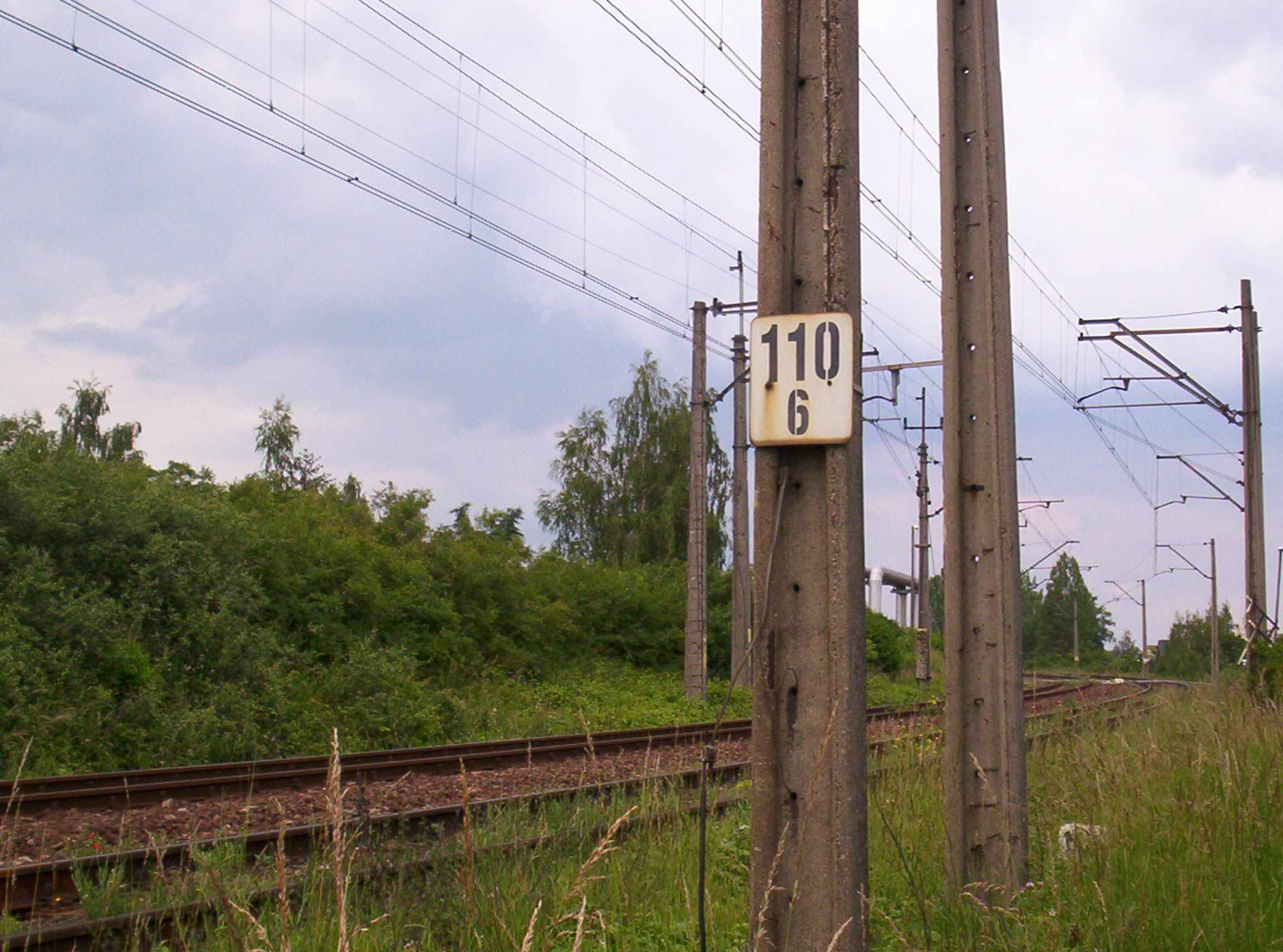 Railway line 14 Łódź Kaliska - Forst in Kalisz, km 110,6